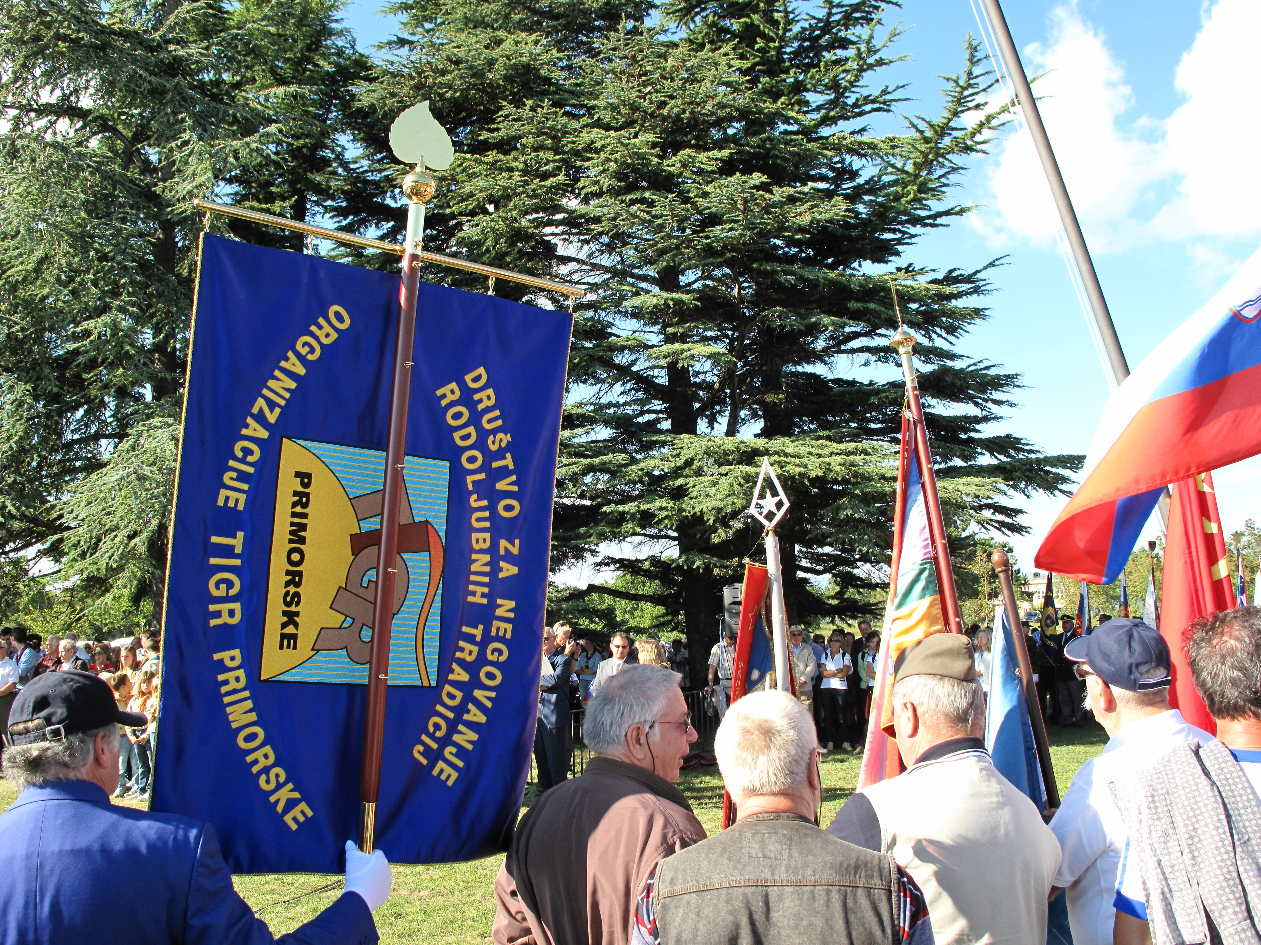 Commemoration of the 80th anniversary of the Martyrs of Basovizza in Basovizza near Trieste.